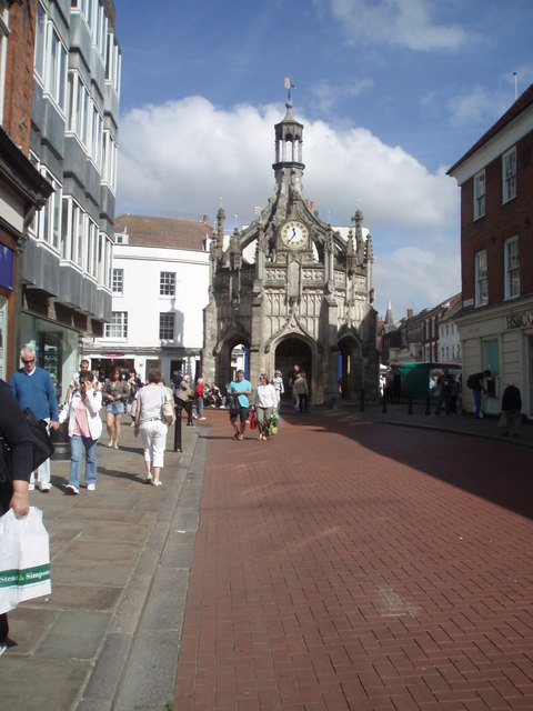 Market Cross